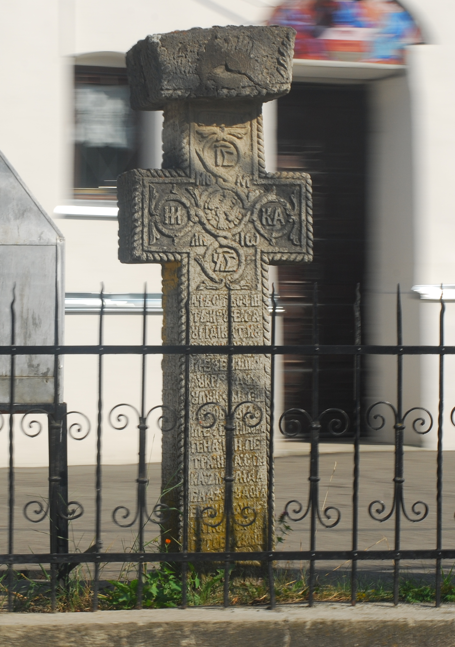 Stone cross in the yard of Saint Paraskeva church in Șimon, Bran Commune, Brașov County, RomaniaRomână: Cruce de piatră în curtea bisericii Cuvioasa Paraschiva din satul Șimon, comuna Bran, județul Brașov, România 02